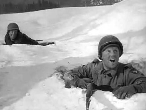 This screenshot shows Van Johnson in the trailer to the 1949 film Battleground